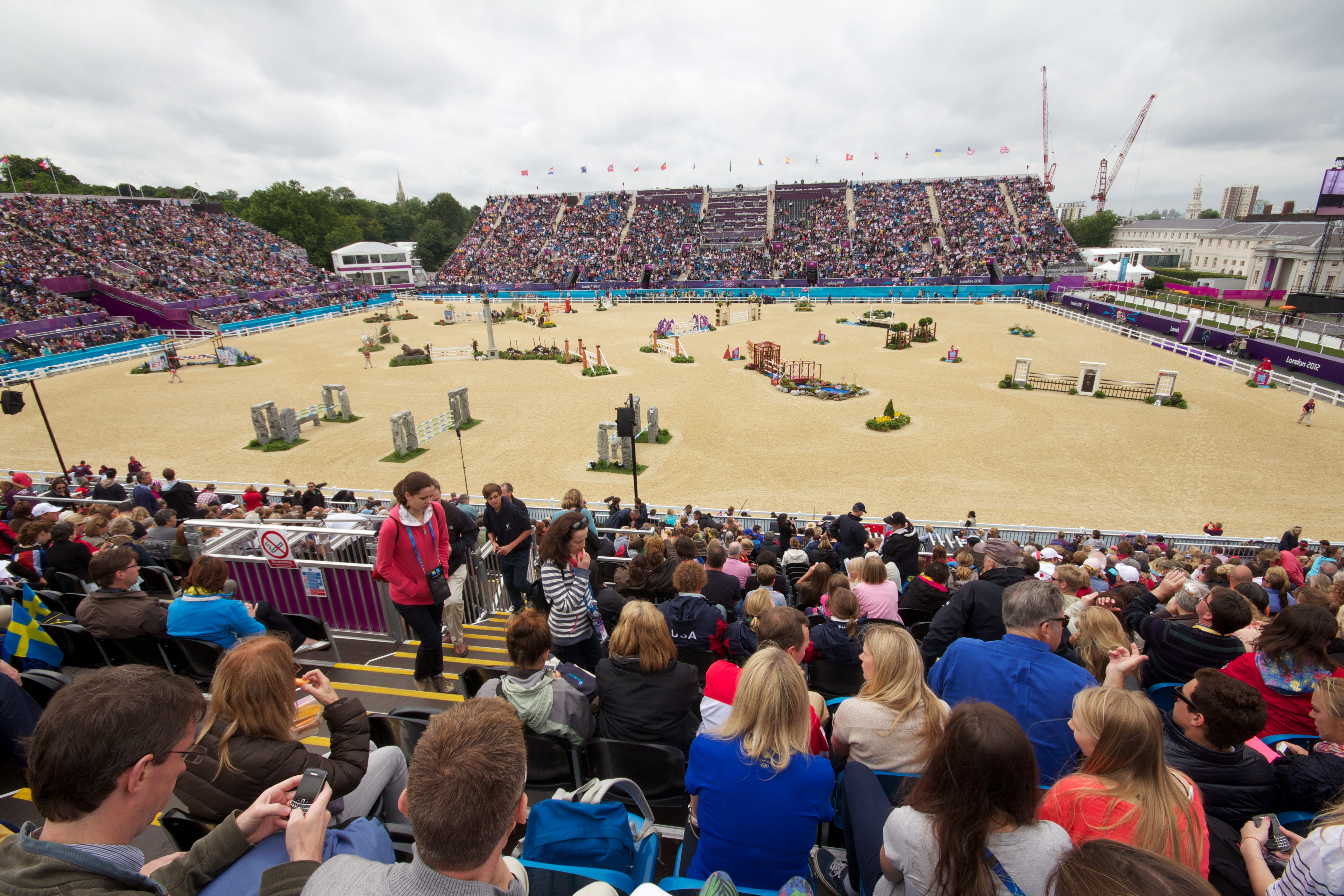 Equestrian sports at the 2012 Summer Olympics